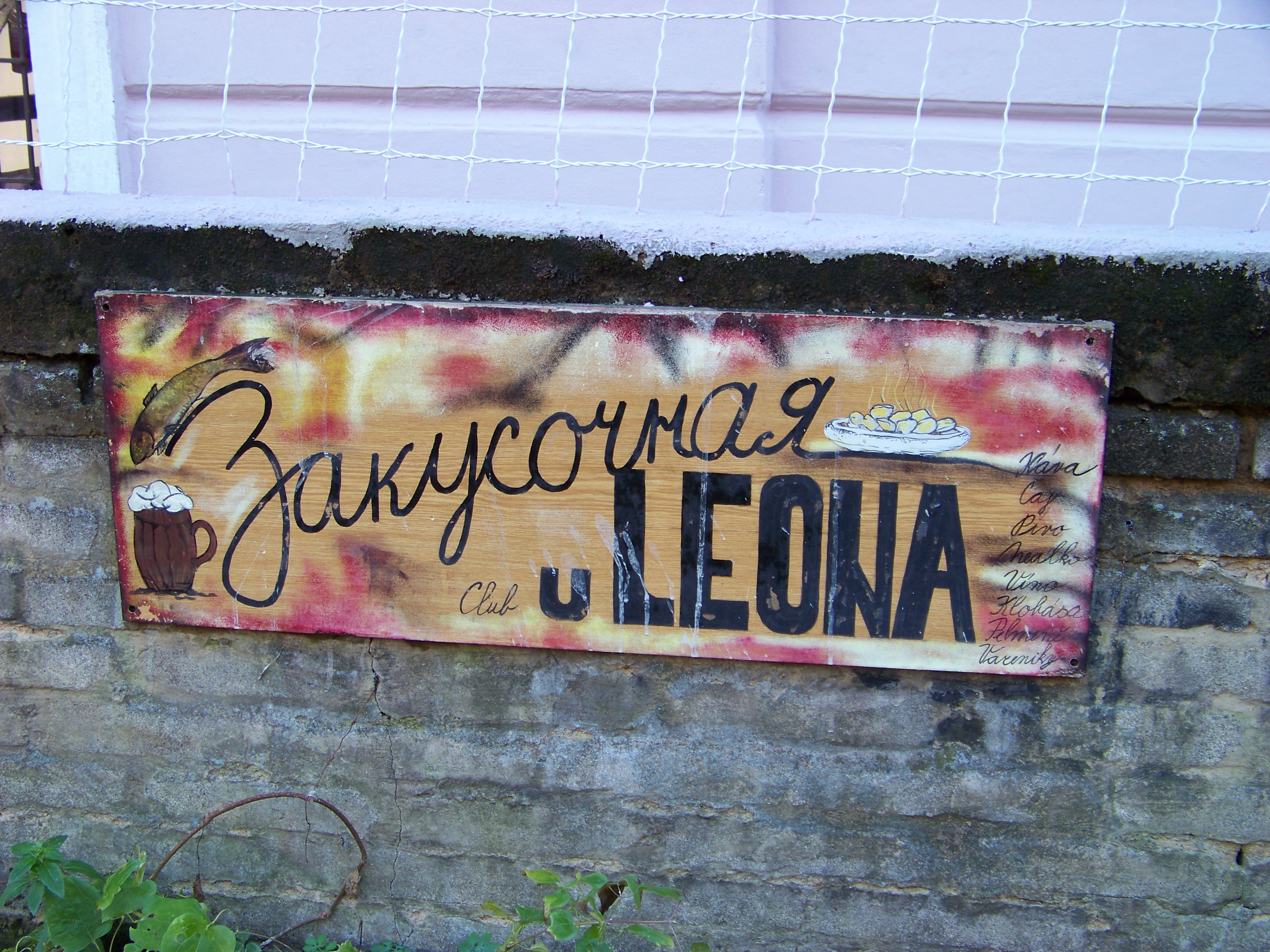 Prague-Žižkov. The bikeway on the former railway track Prague–Turnov. A house at Tachov Square No 49/3, a sign of club restaurant закусочная Club U Leona.